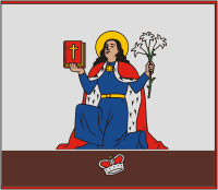 Flag of Kvėdarna (Lithuania)